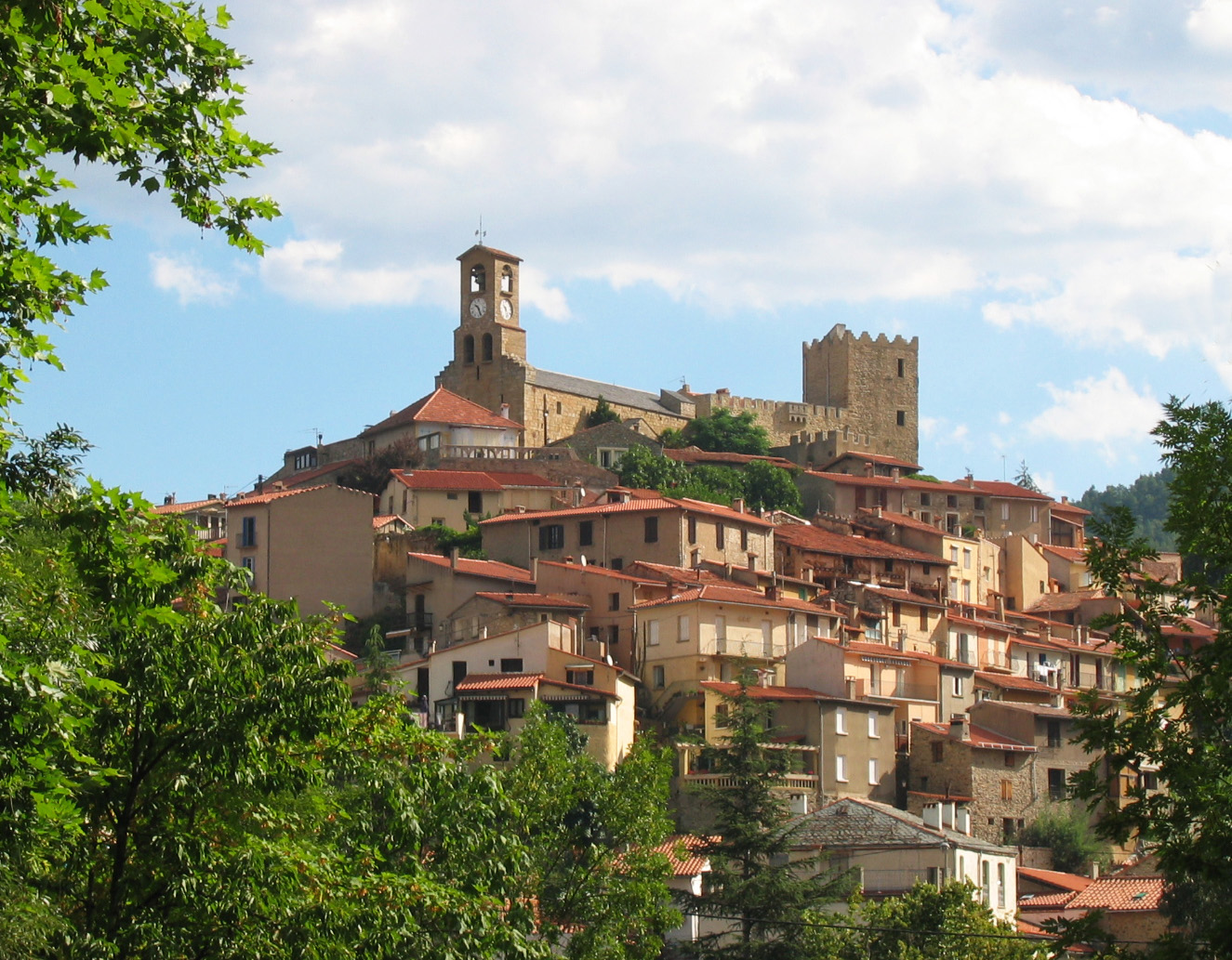 Church of Vernet-les-Bains, Pyrenees